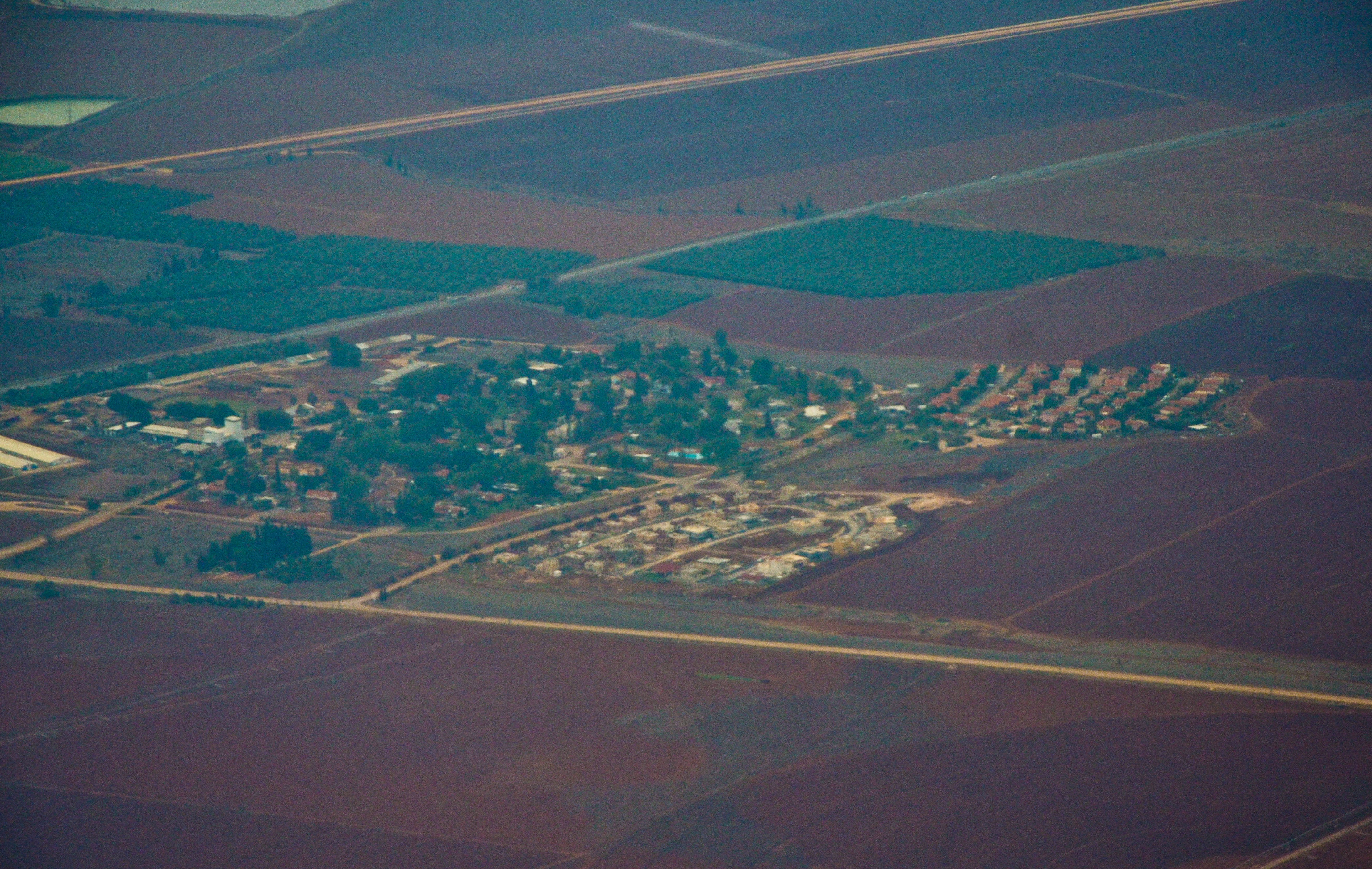 Shot taken from plane flown by Ilan Maytal